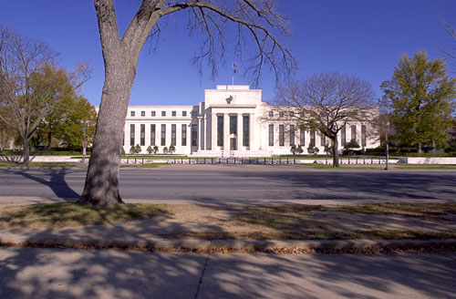 Eccles Building in Washington, D.C., south side